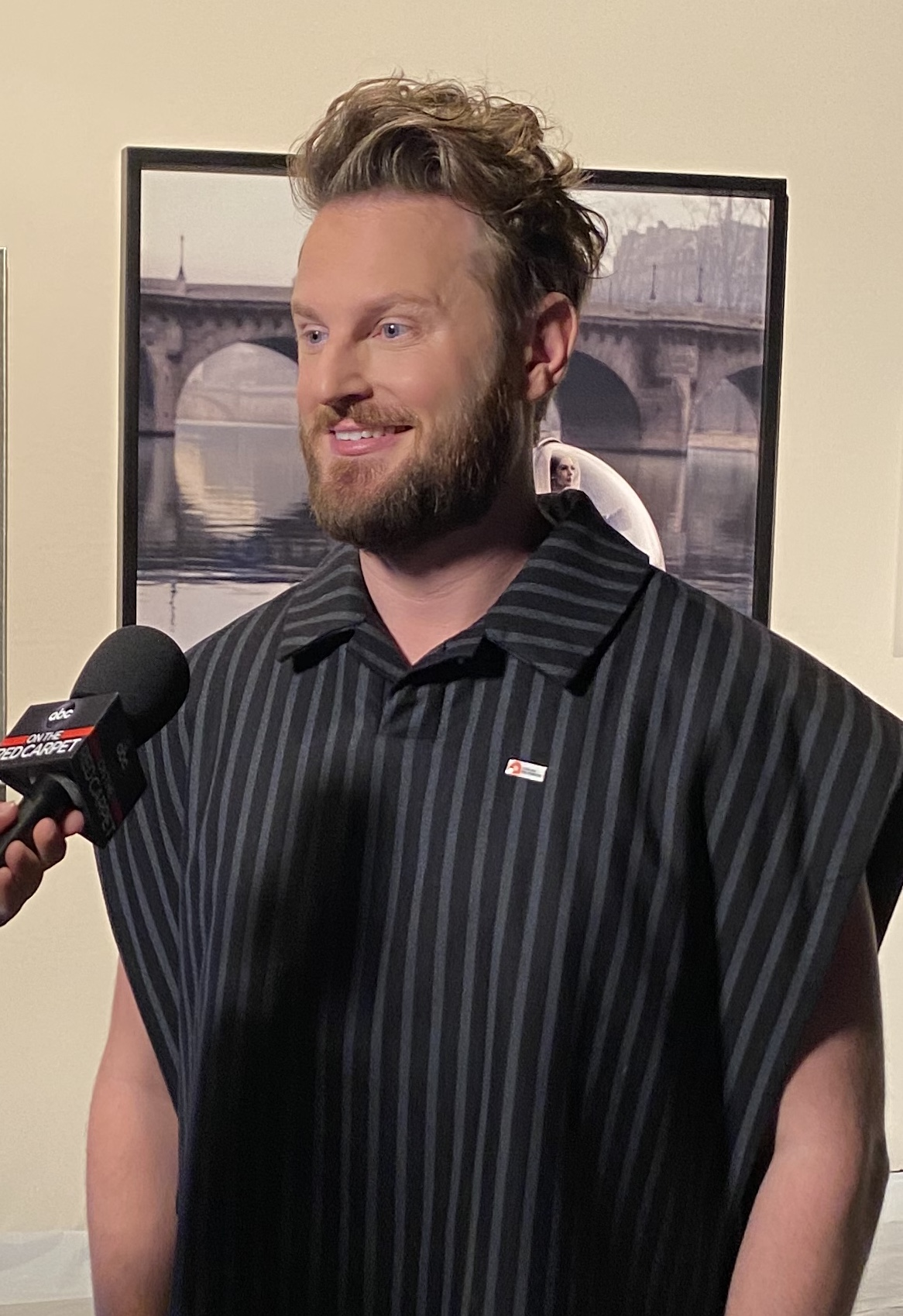 Bobby Berk Interview 2020